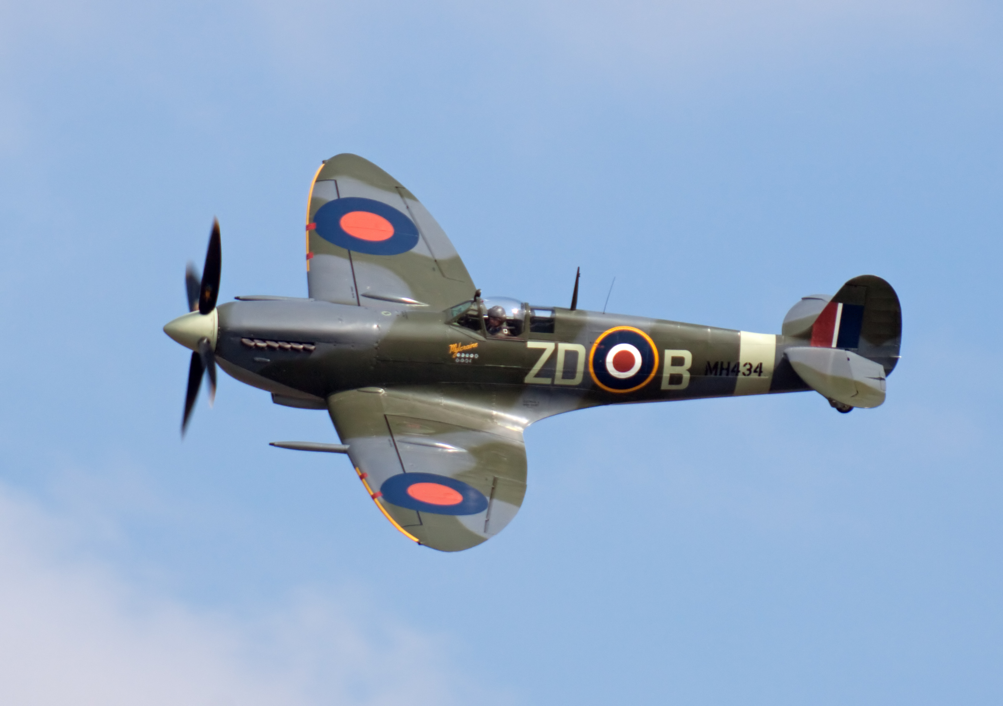 Spitfire LF IXC MH434 2a